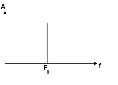 Fala nośna